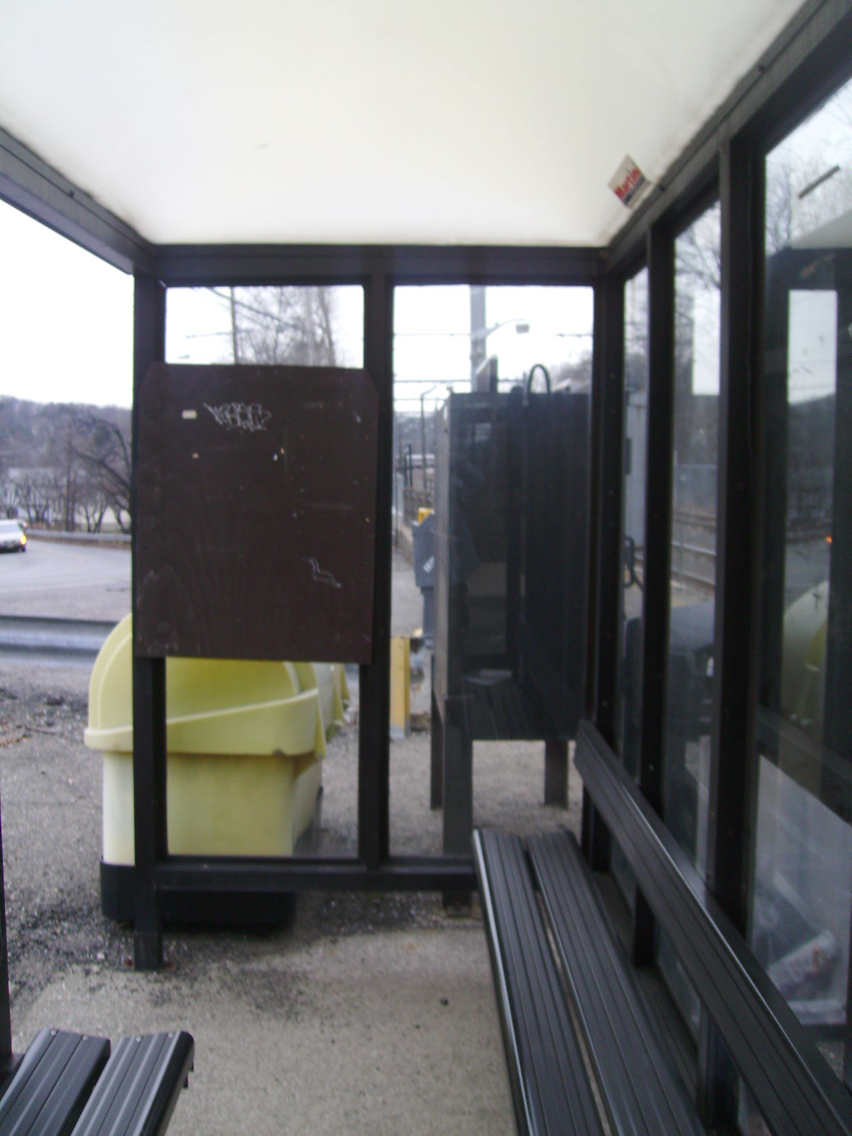 Great Notch train station shelter in Great Notch, New Jersey. This shelter replaced the former Erie Railroad station.